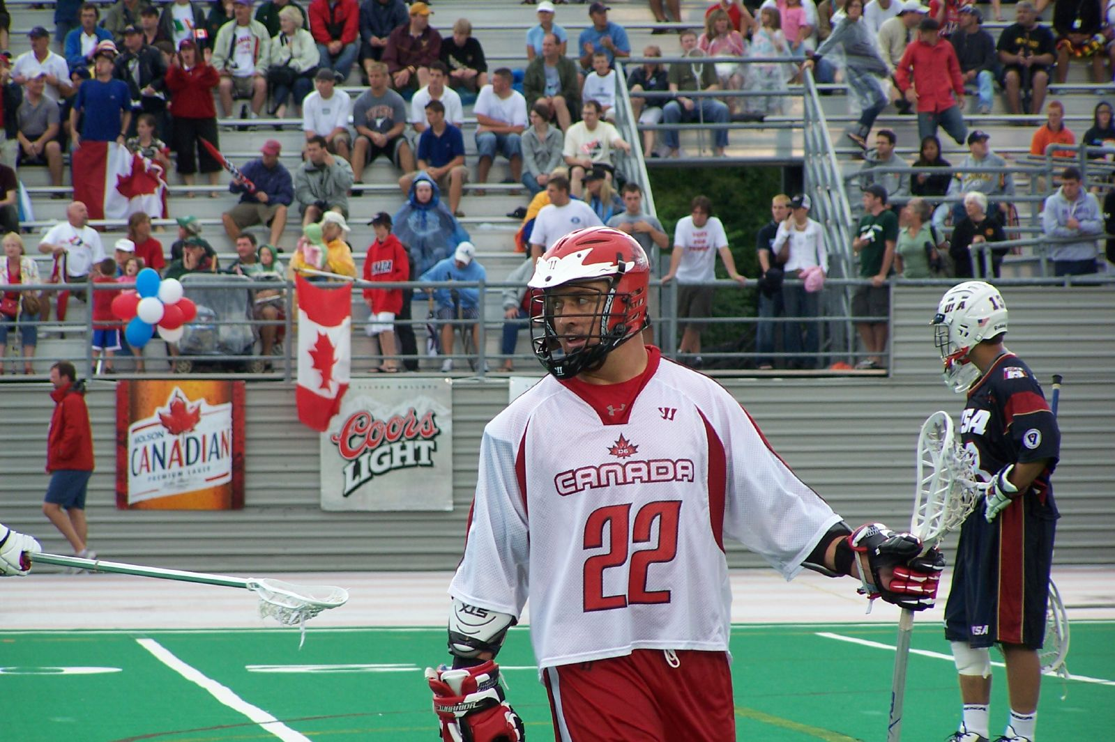 Gary Gait during the 2006 World Lacrosse Championship Title Game (Canada vs USA) that Canada won